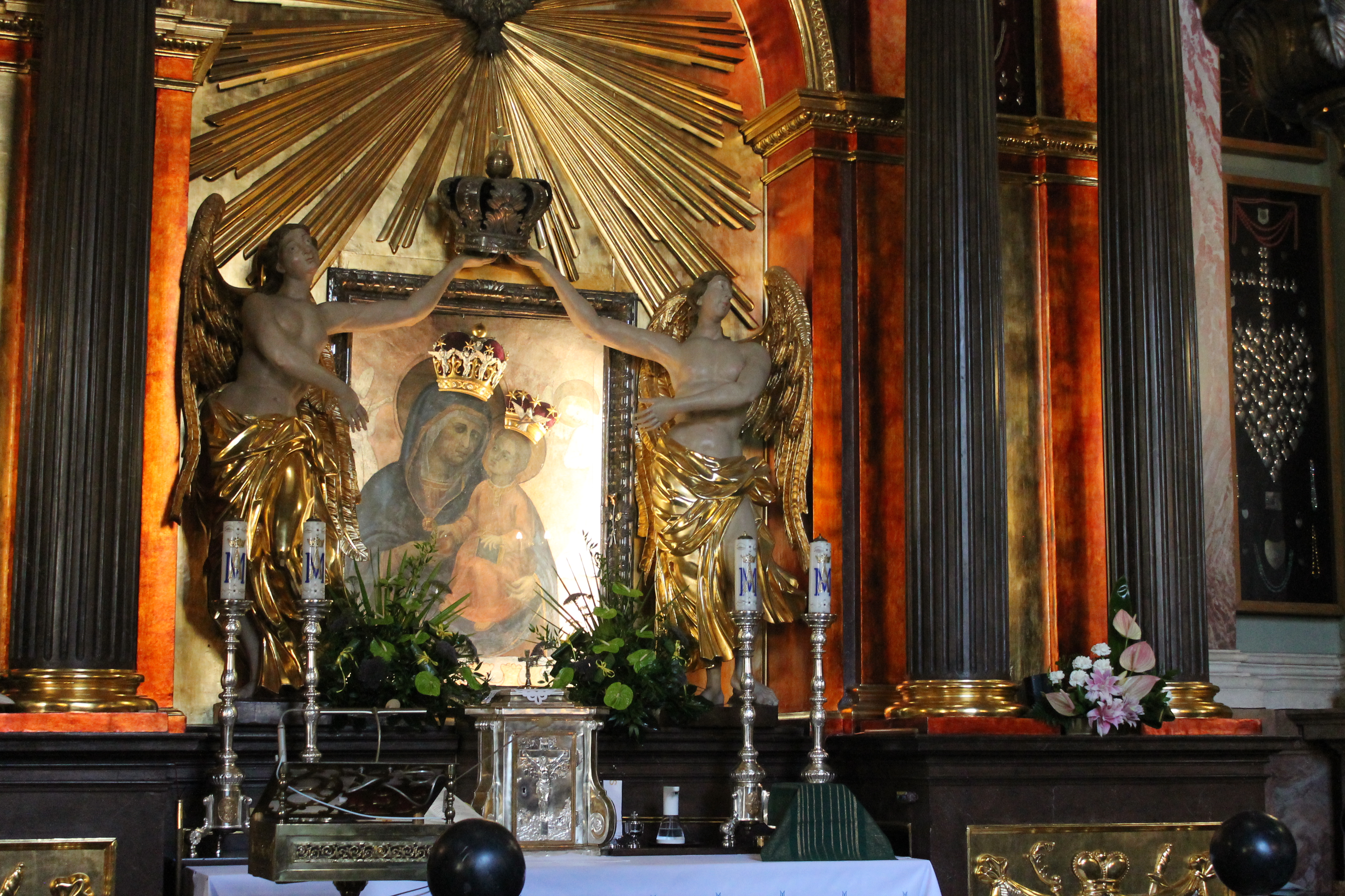 Karmelicka 19 Cracow